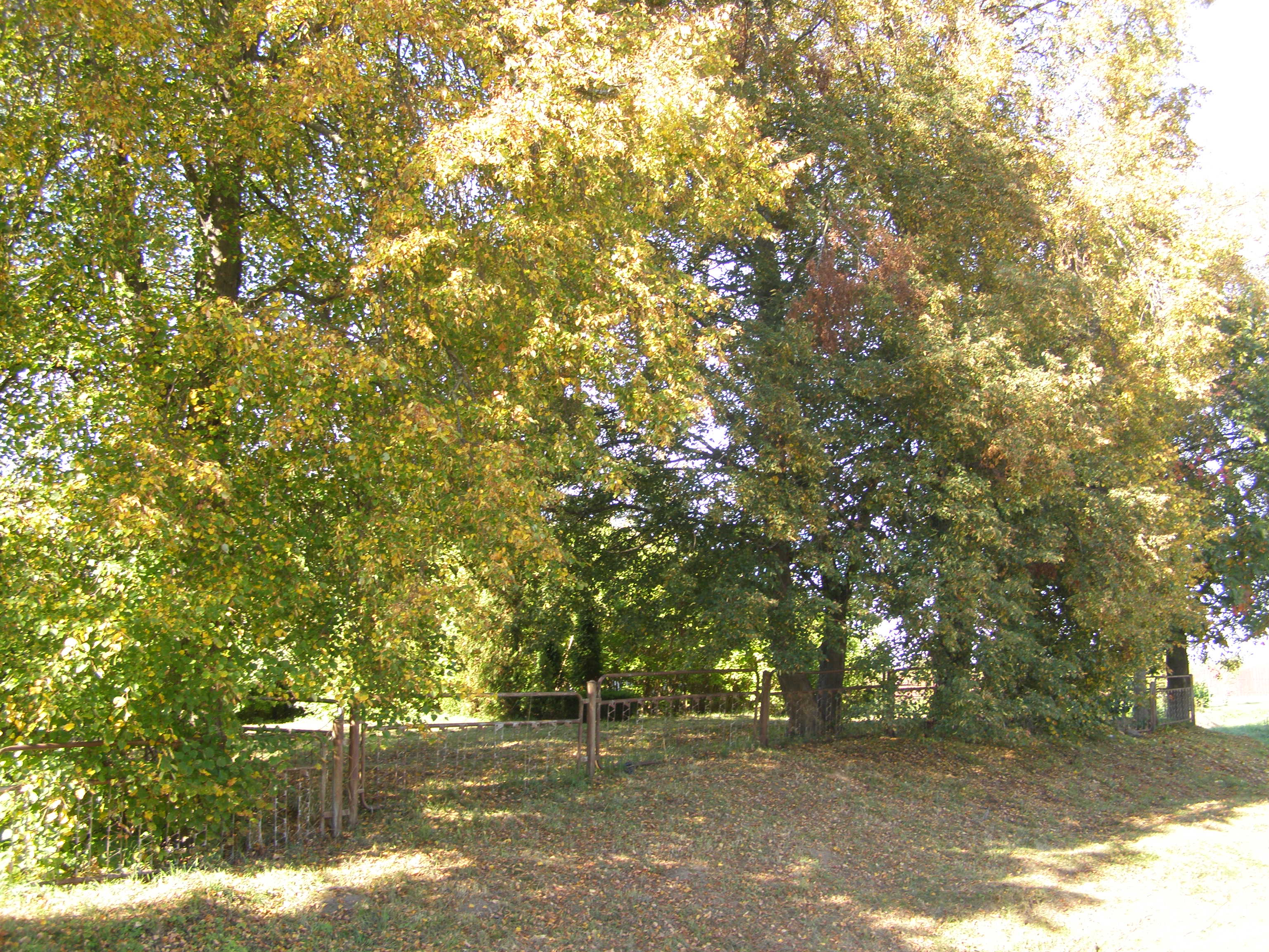 Skuodas cemetery, Skuodas district, LithuaniaLietuvių: Skuodo II senosios kapinės, Skuodo rajonas, Lietuva